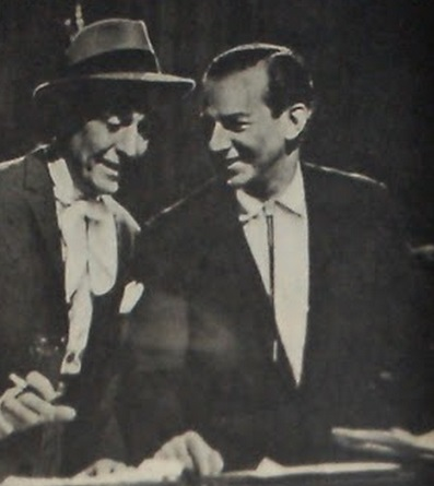 Hugo del Carril & Mariano Mores, during "Buenas noches Buenos Aires", Buenos Aires, 1963.